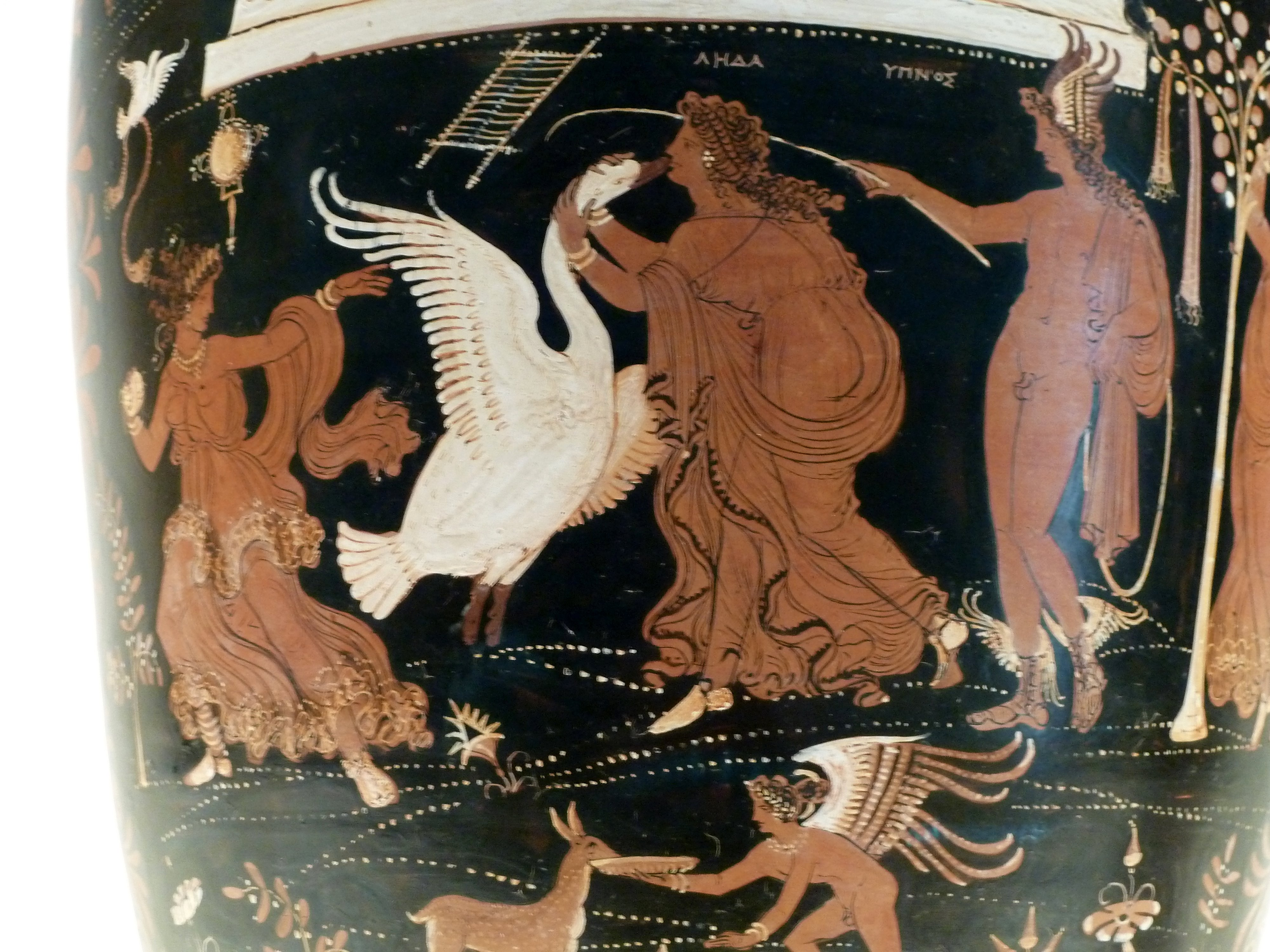 Vessel with Leda and the Swan (Greek, Apulia 330 BC) - Leda with the Swan, as Hypnos enchants her